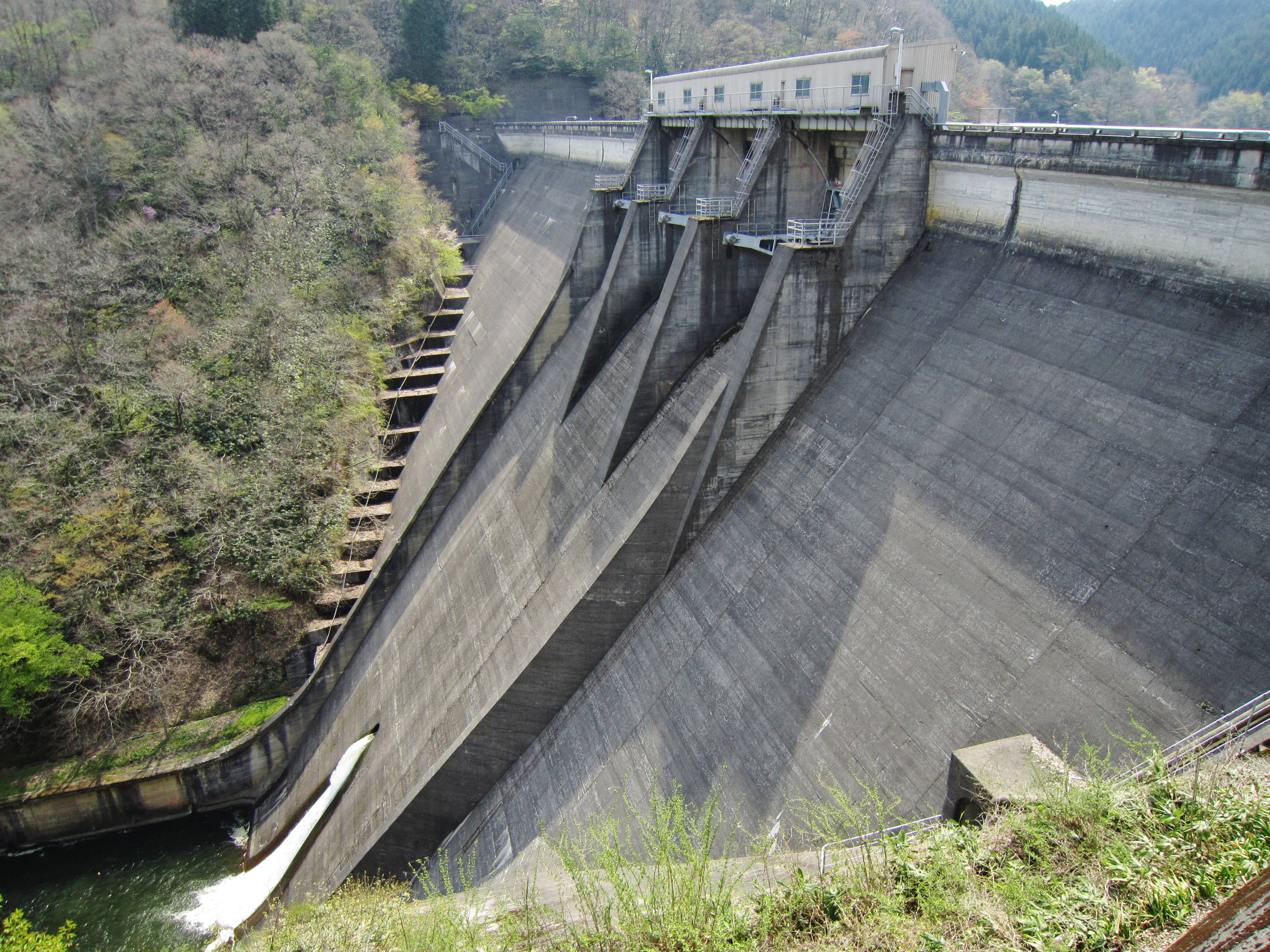 Kijima Dam.